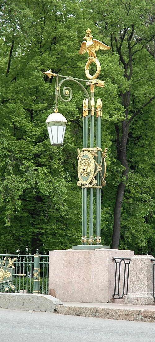 Panteleimonovskii bridge across Fontanka, St Petersburg (Russia), a lantern.